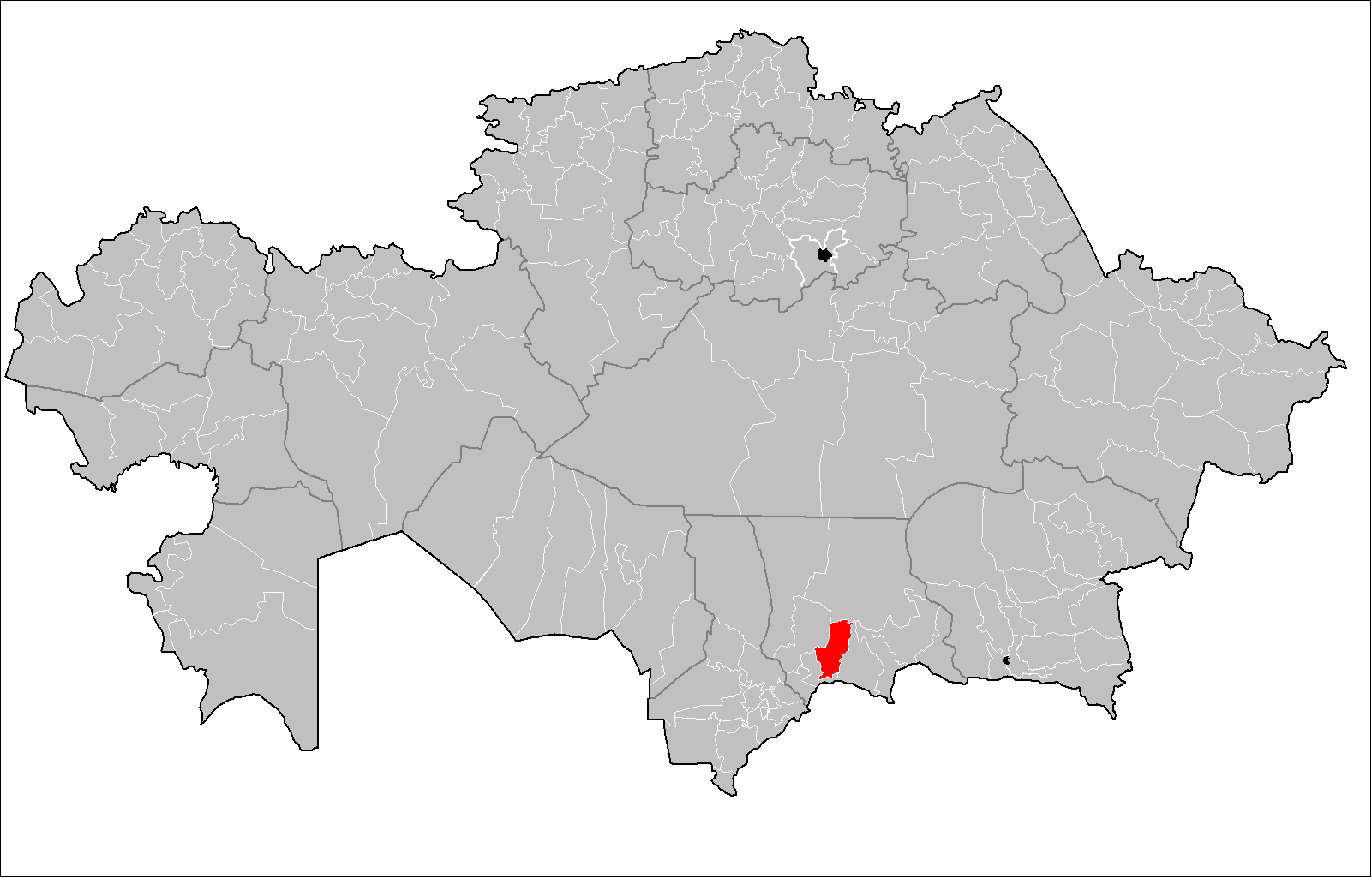 Map of the rayons of Kazakhstan. Created by Rarelibra 16:49, 3 August 2007 (UTC) for public domain use, using MapInfo Professional v8.5 and various mapping resources.